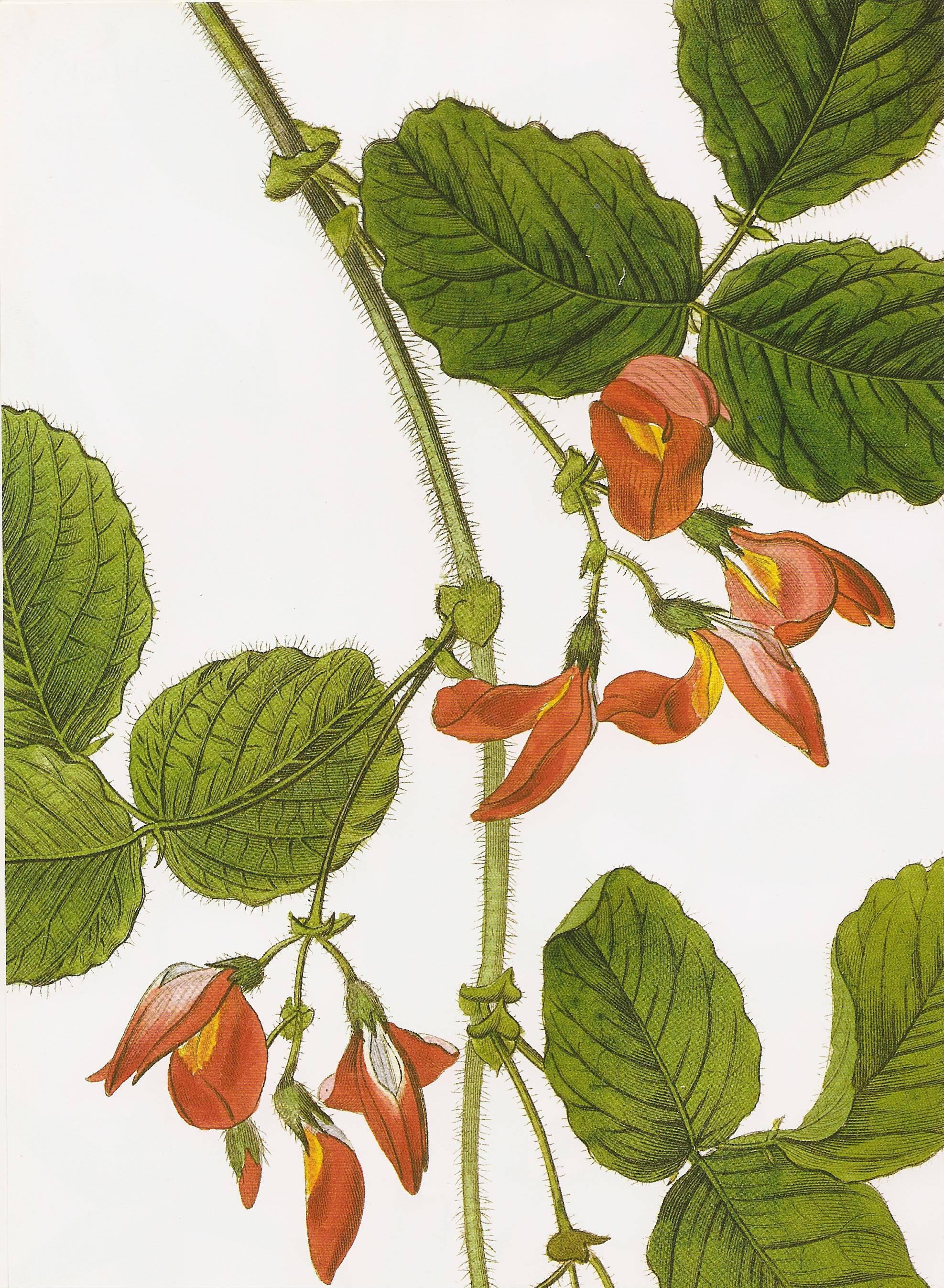 Now known as Kennedia prostrata, this plant was named after K. maryattae by John Lindley. The hand-coloured engraving, after a drawing by Miss S. A. Drake (fl. 1820s-1840s), was published in the 21st volume of the Botanical Register (1836), edited by John Lindley.